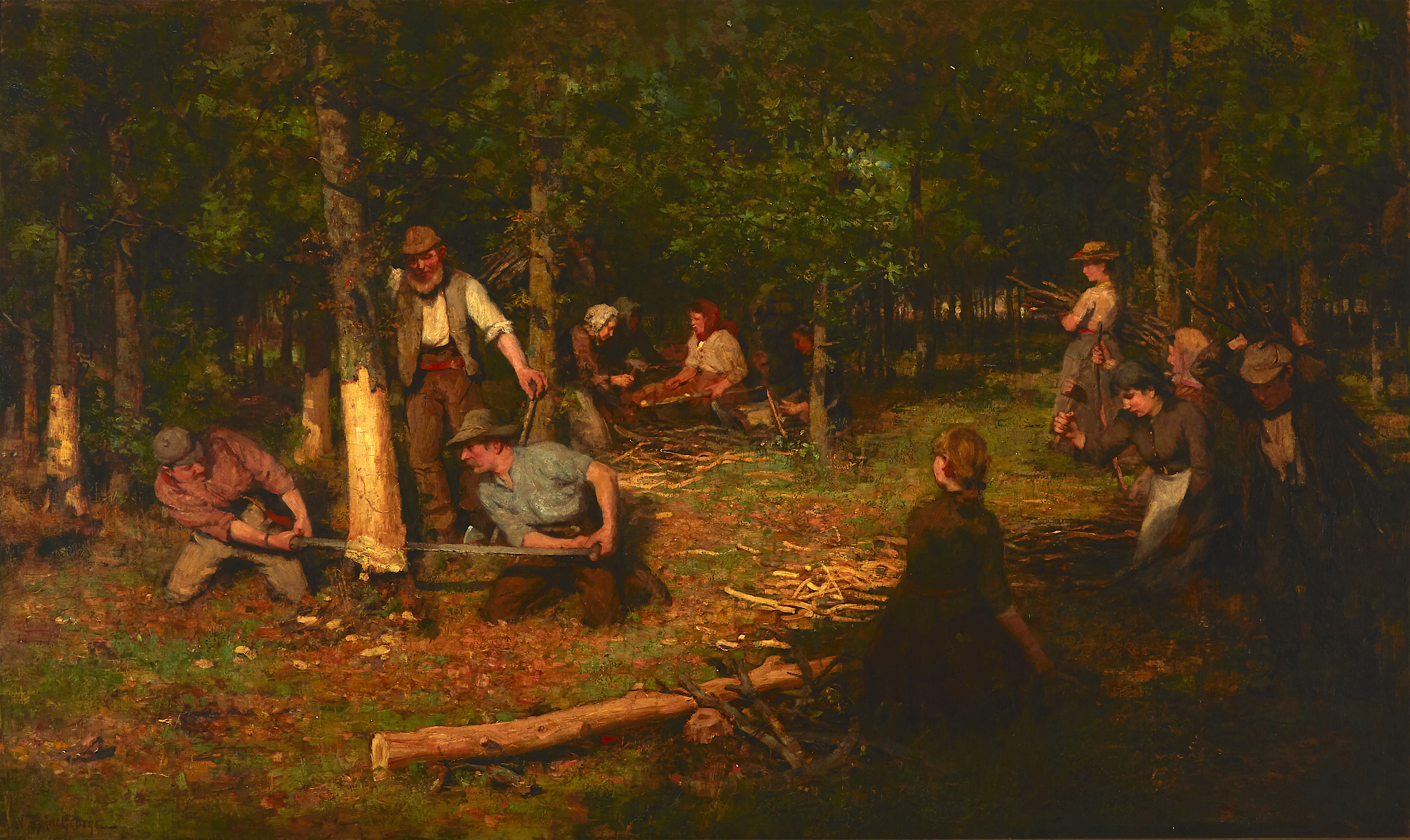 with Baraset House Fine Art 'Bark Peeling' Exhibited 1889 The Royal Scottish Academy of Art, no.72.